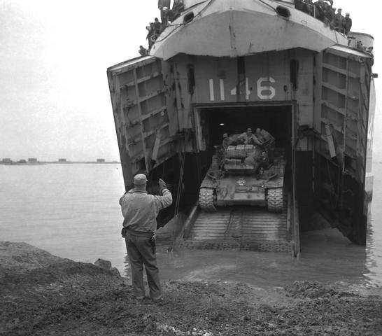 A Marine guides a tank out of USS LST-1146's tank deck onto the beach at Inchon, Korea. Photo dated 01 APR 1952, Photo by Sgt. Angelo R. Caramico USMC USMC photo # HMSN 980684